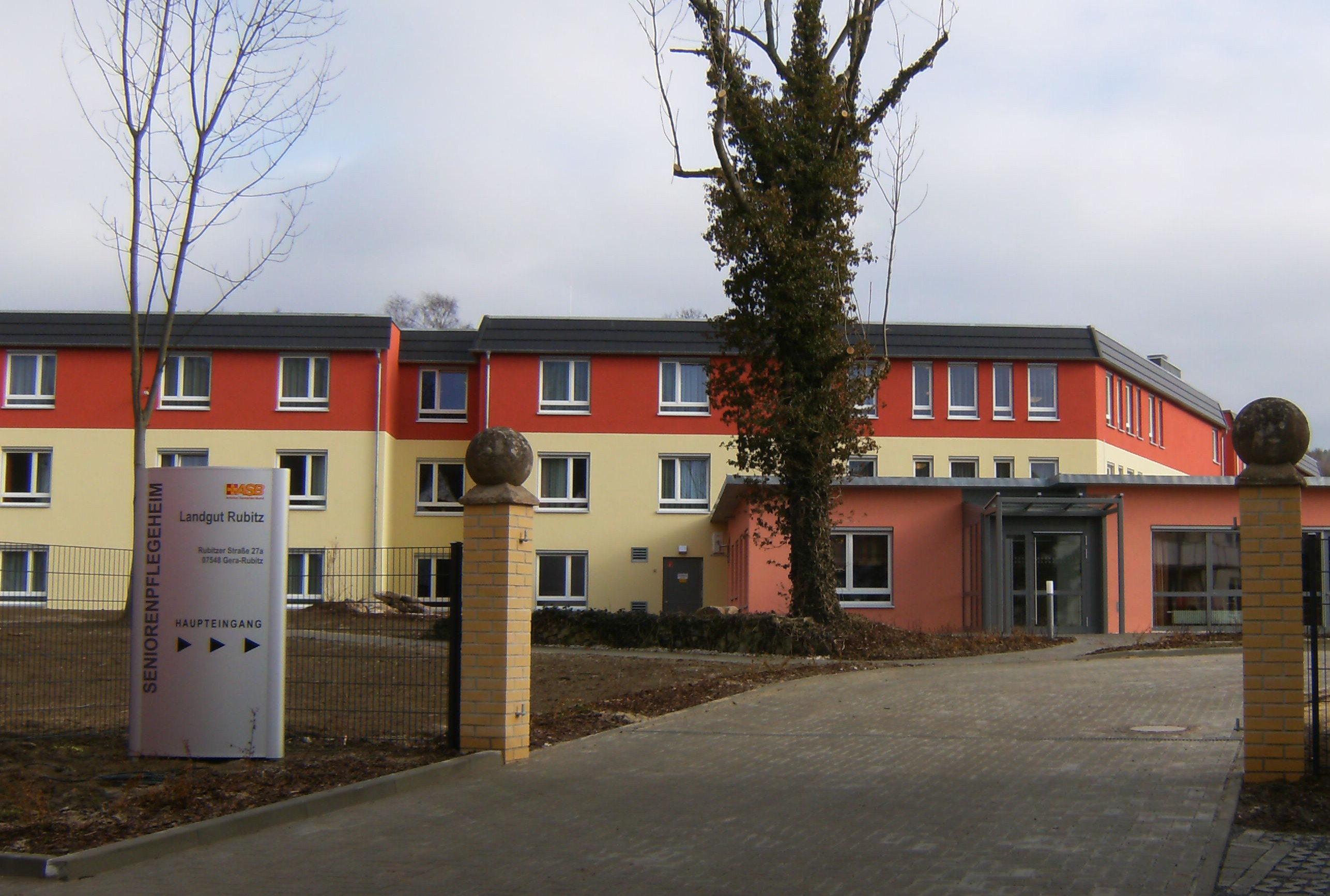 Gera: Old people's home "Rubitz Estate".